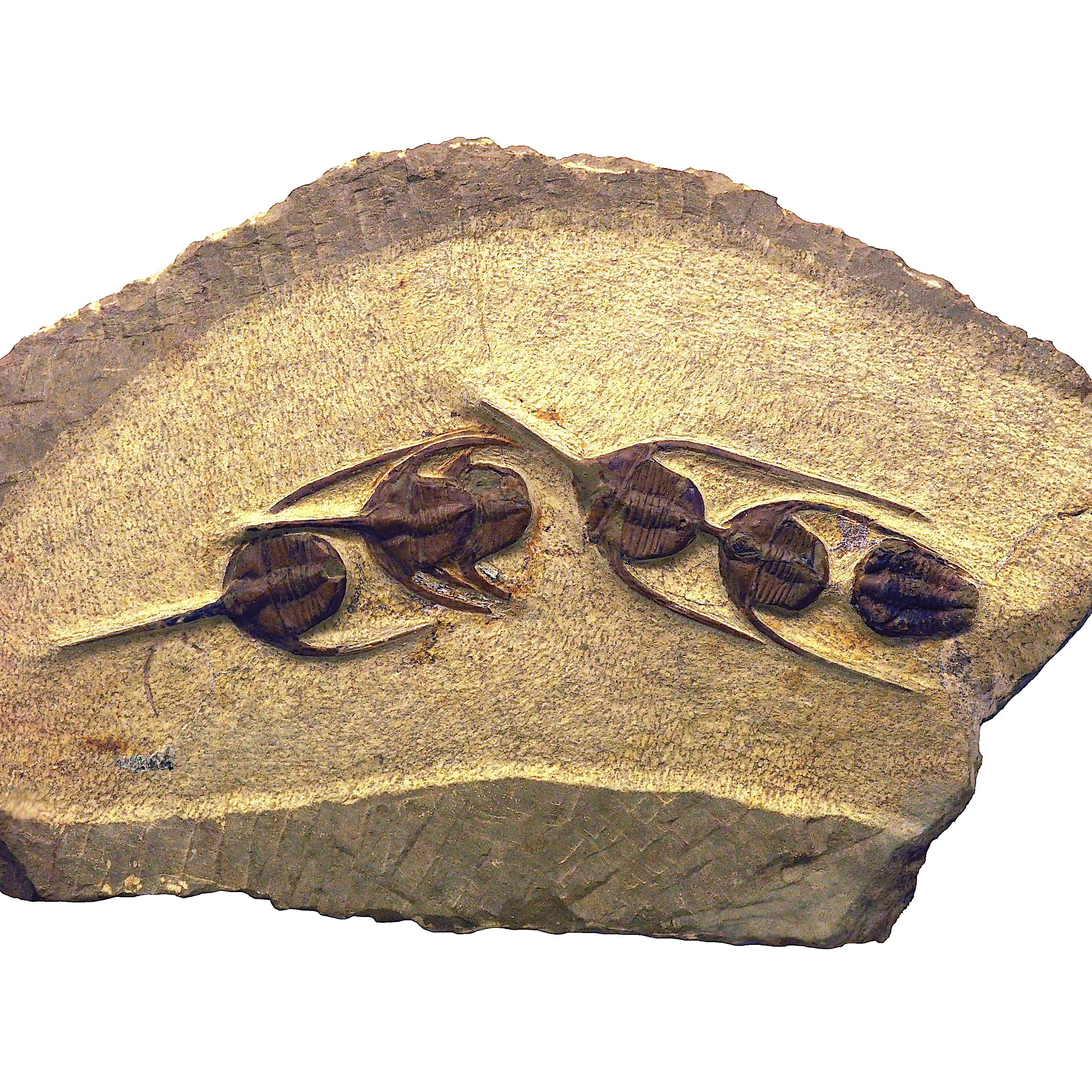 Group of trilobites, Ampyx priscus, clustered in a line Fossile of a procession of touching trilobites, indicating a single-file common movement, likely a seasonal migration OLYMPUS DIGITAL CAMERA